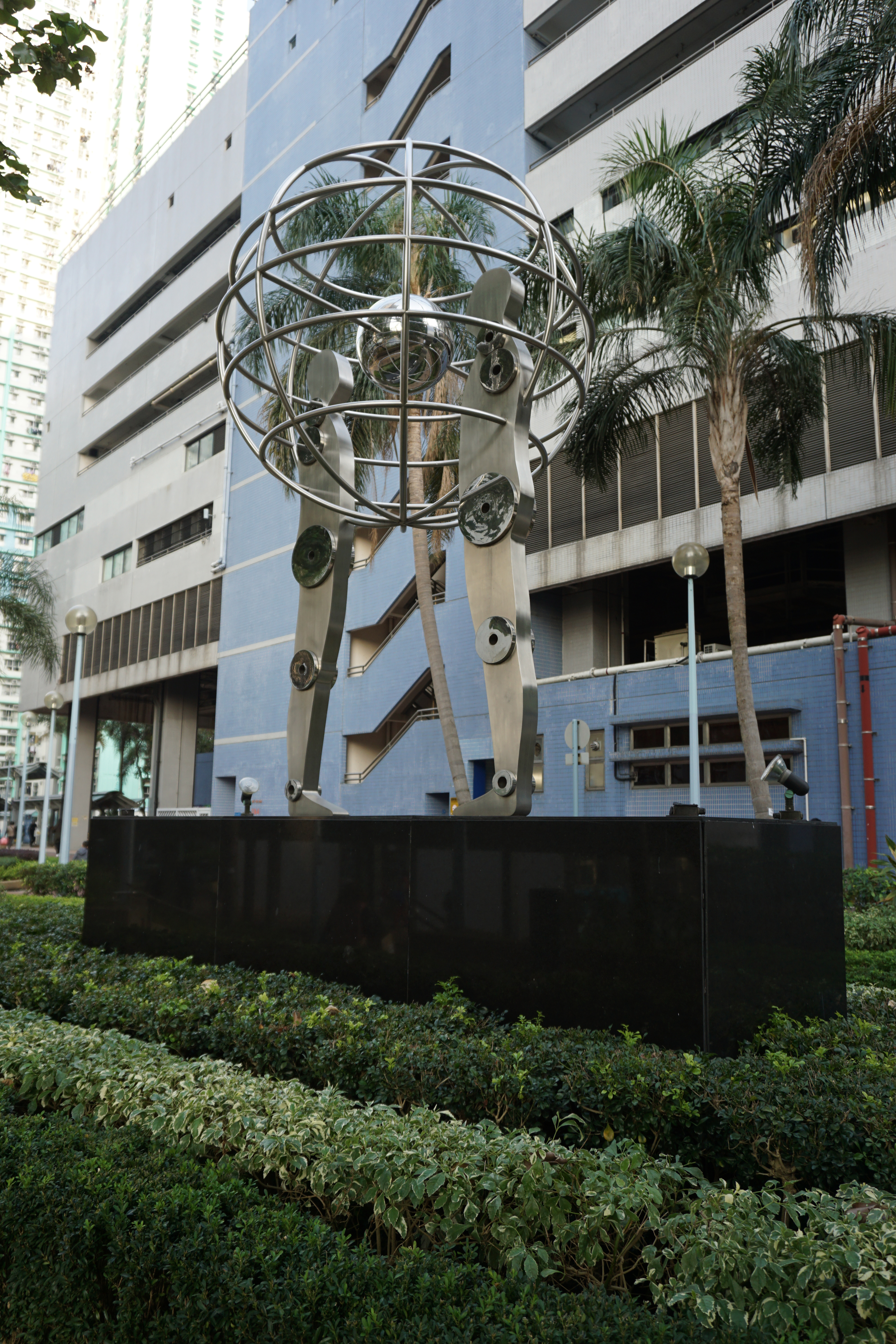 Tin Heng Estate in Tin Shui Wai, Hong Kong.